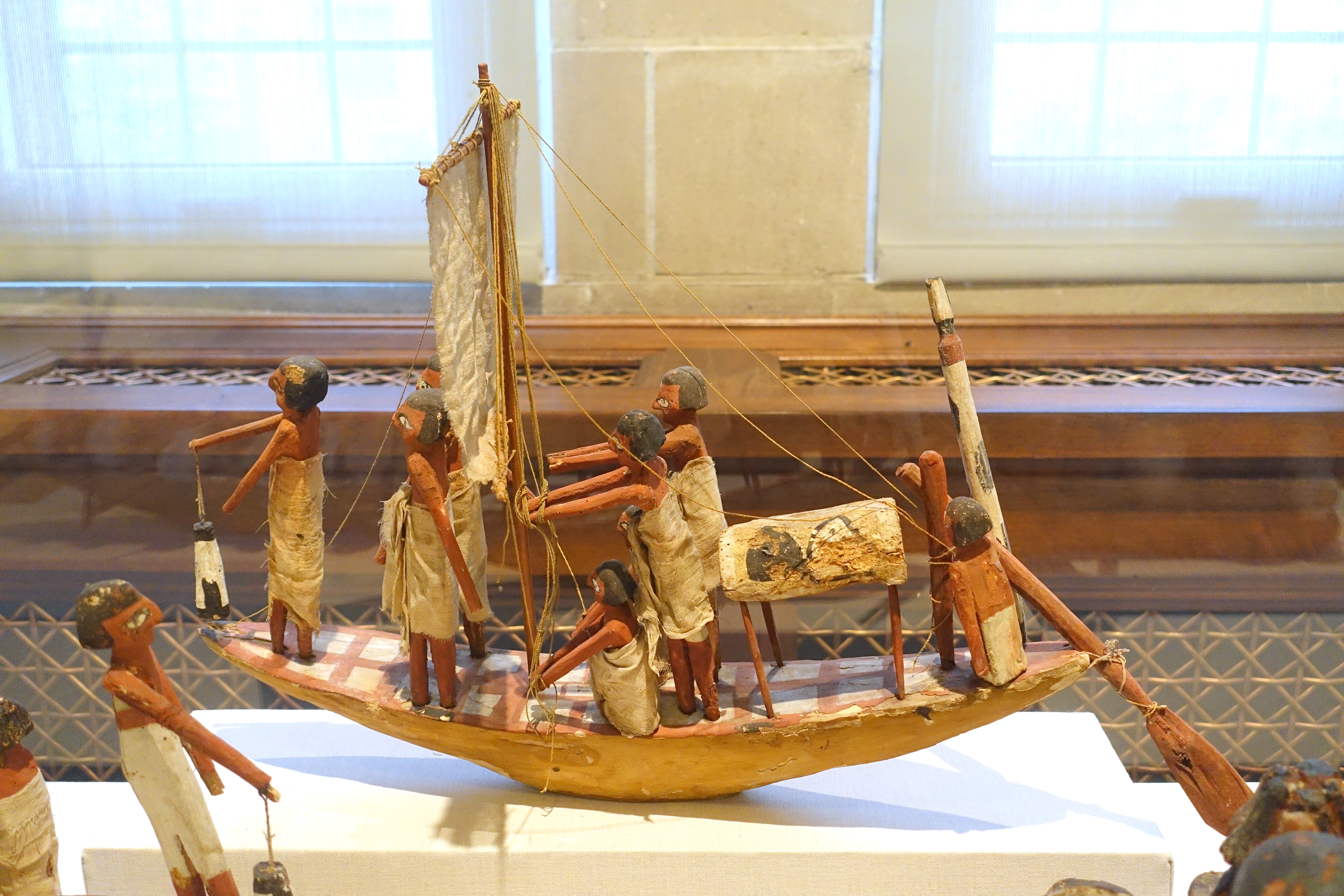 Exhibit in the Oriental Institute Museum, University of Chicago, Chicago, Illinois, USA. This work is old enough so that it is in the public domain.